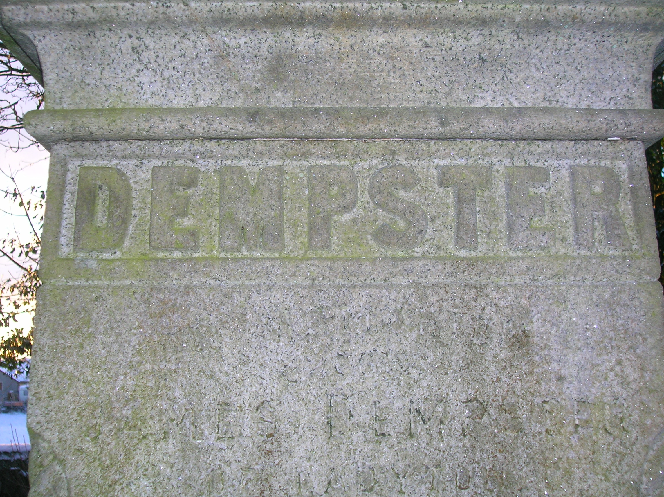 Loudoun Kirk, Dempster gravestone detail, East Ayrshire, Scotland.